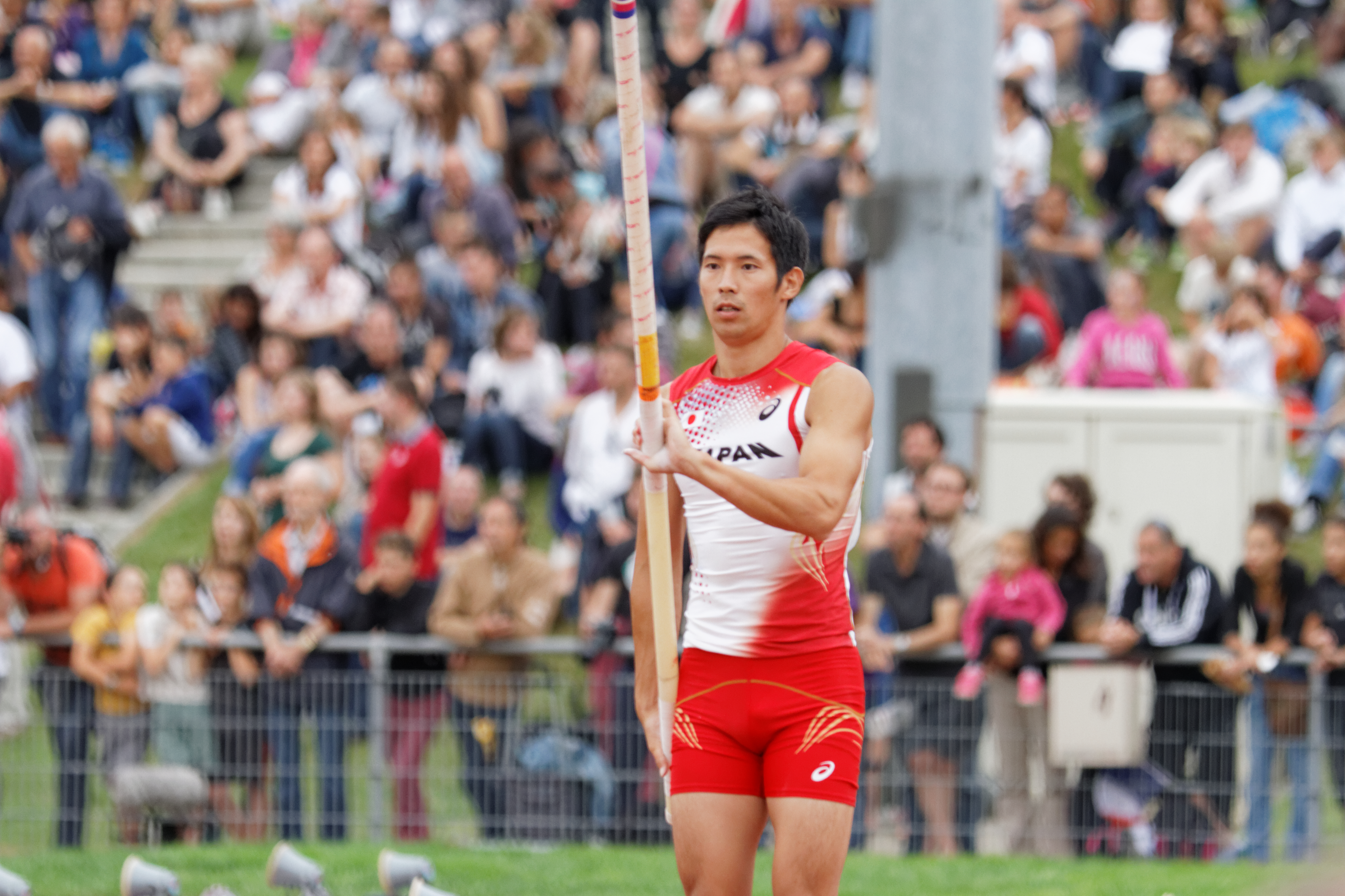 DécaNation 2014